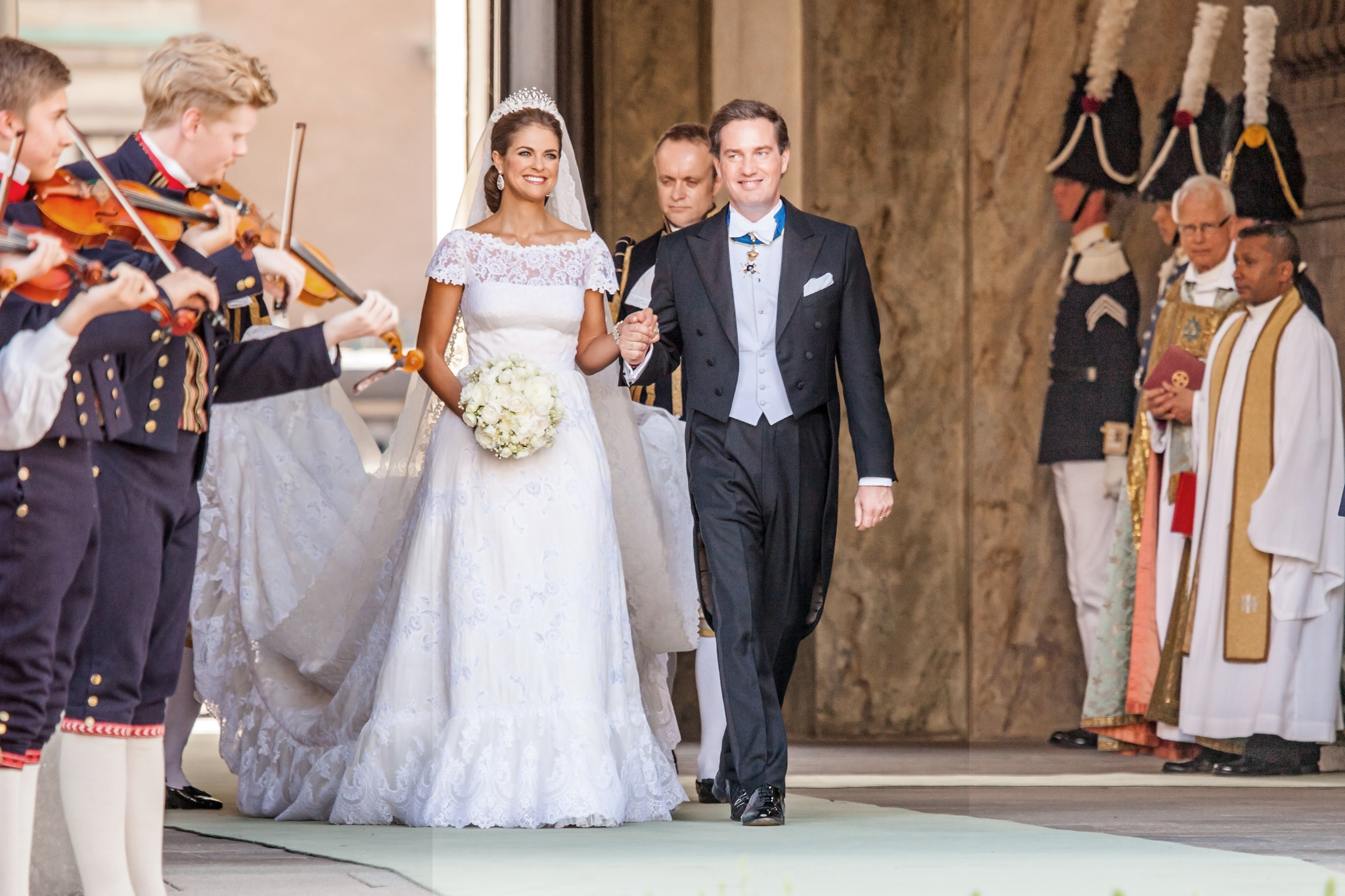 Princess Madeleine of Sweden and Christopher O´Neill wedding June 2013